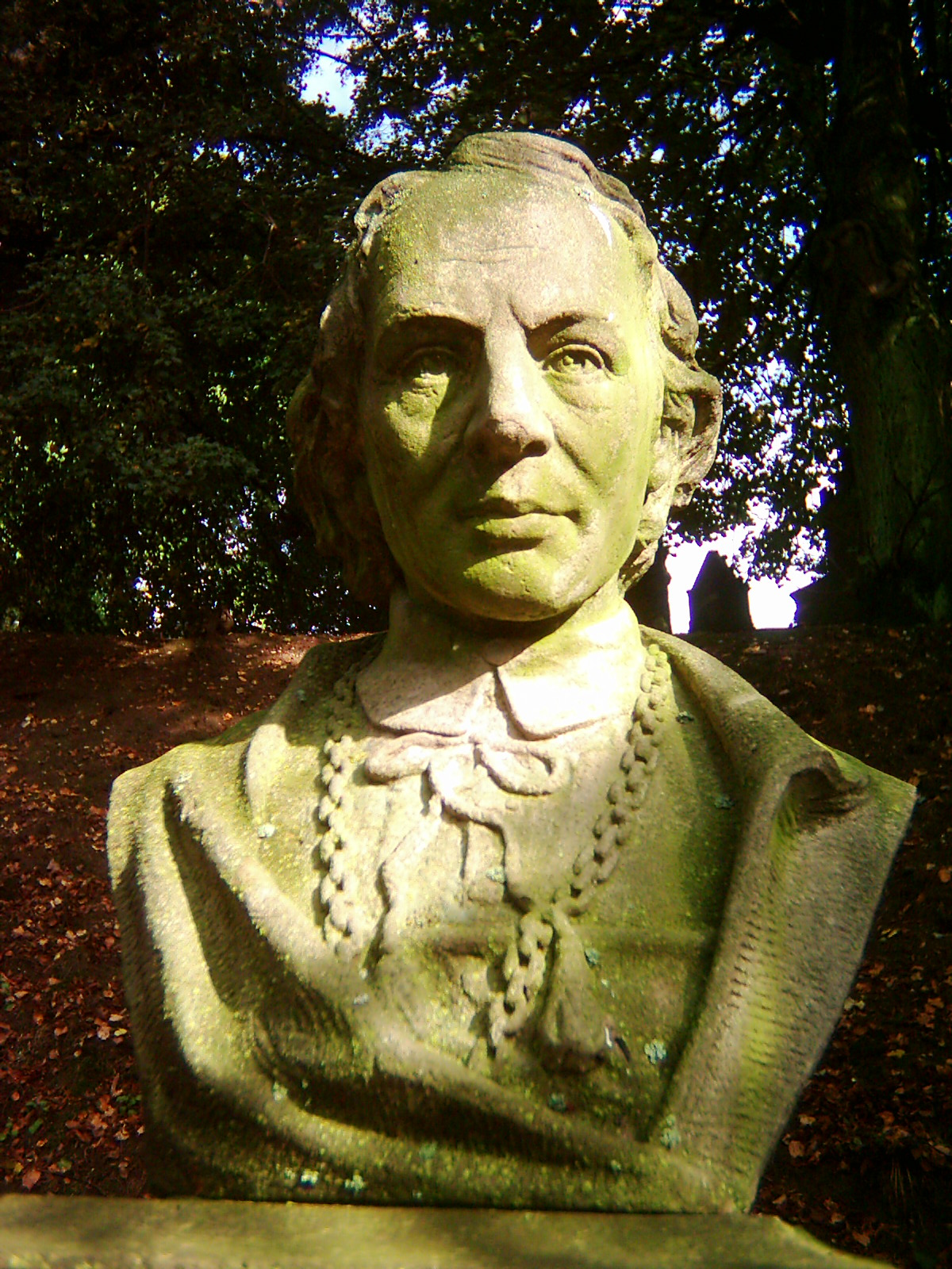 Josef Ladislav Jandera (1776–1857) – a monument in the town of Hořice, on the Gothard hill – detail